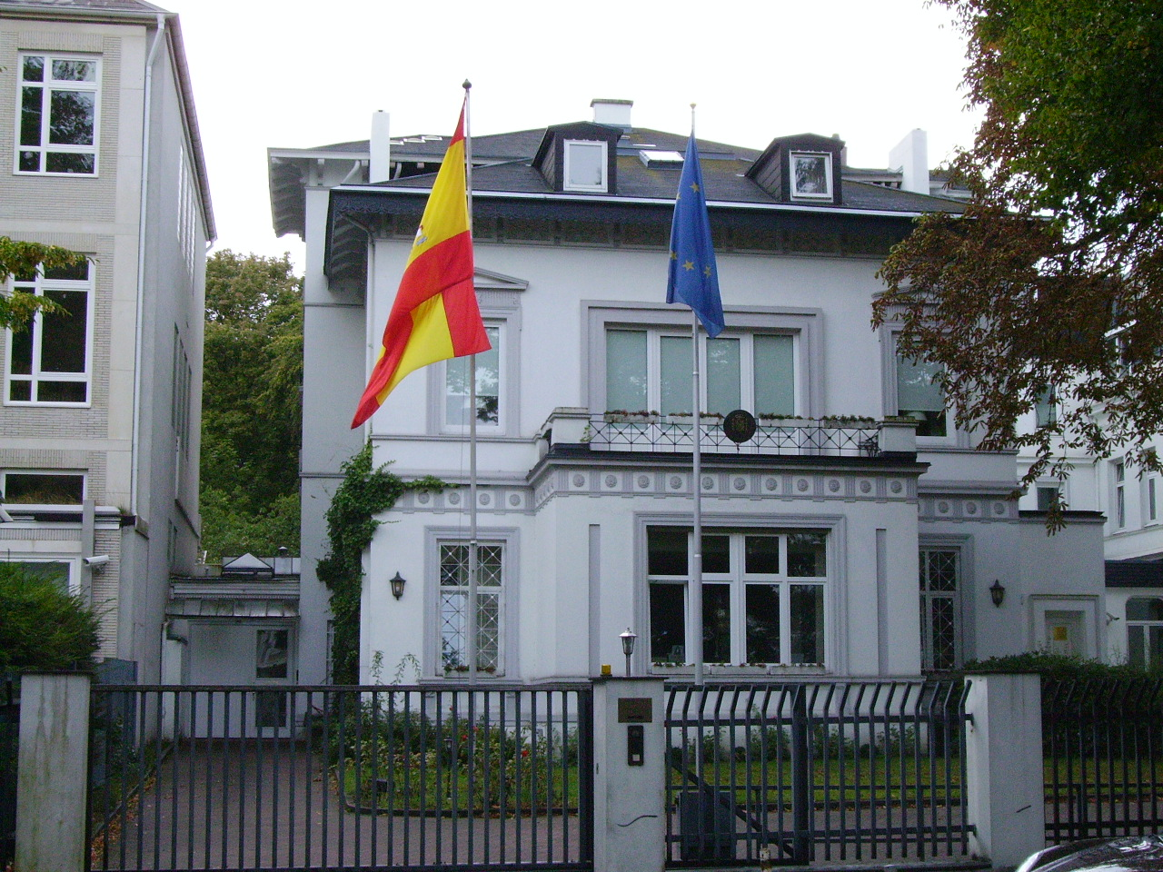 Consulate-general of Spain at Mittelweg 37 in Rotherbaum, Hamburg